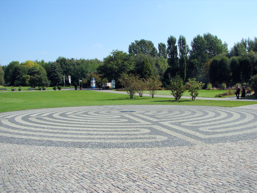 labyrinth in Erholungspark Marzahn